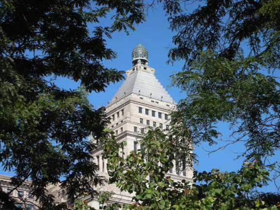 Beehive Lamp atop the Metropolitan Tower, Chicago, Illinois, USA; taken on 9/2/07 by Algonquin69